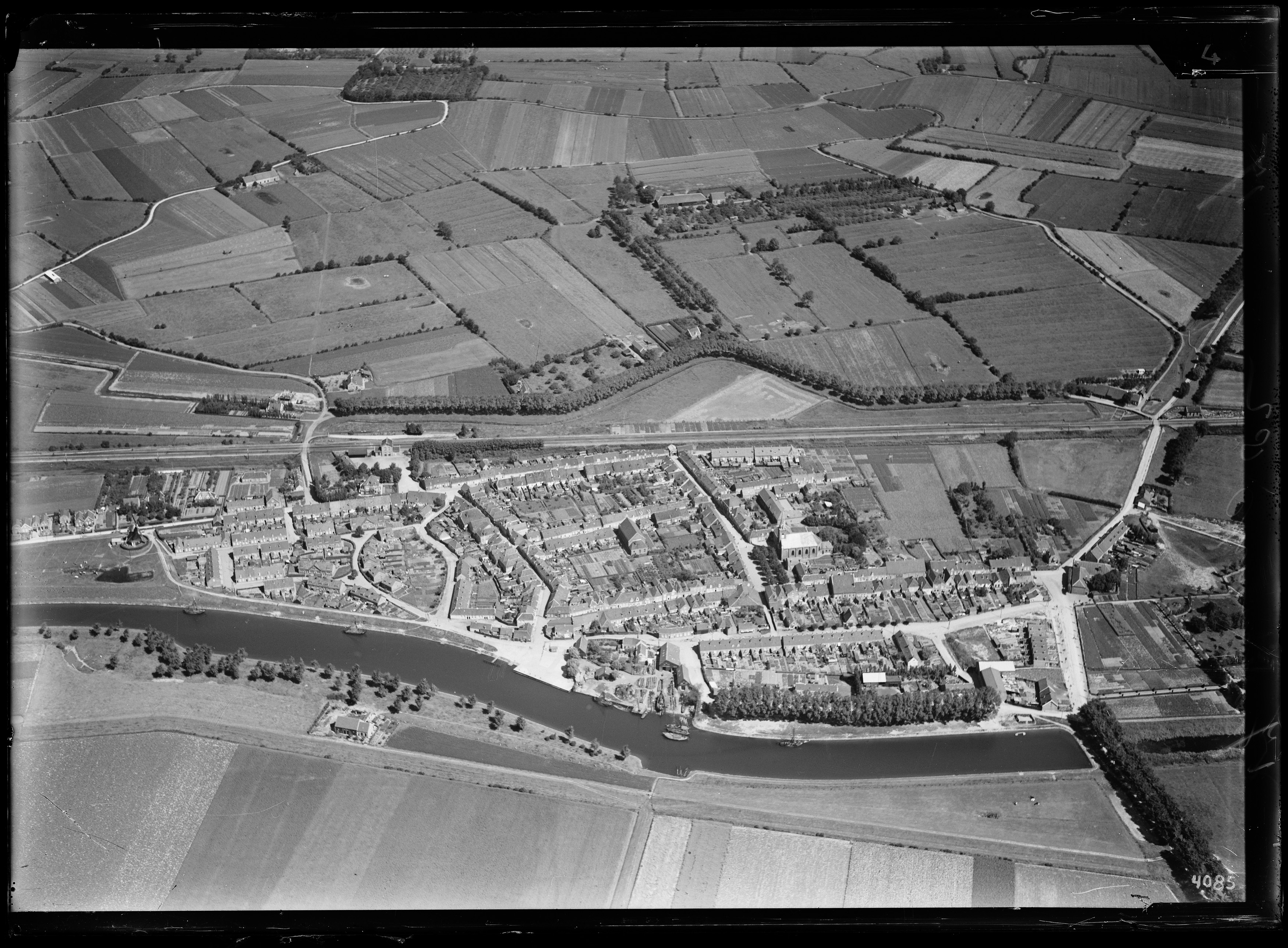 Aerial photograph of Arnemuiden, The Netherlands